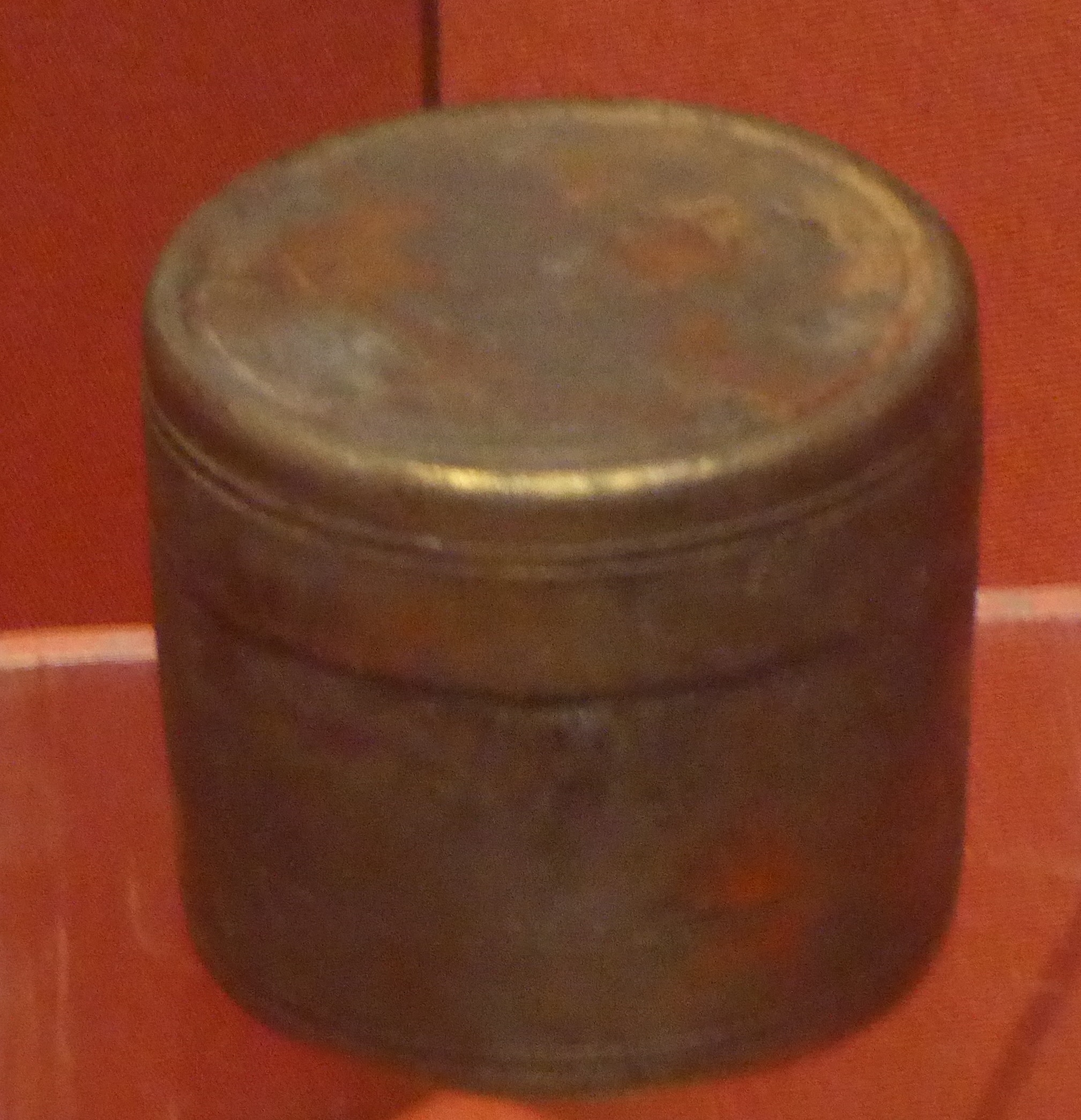 Tin-alloy canister, Roman, found at Tabard Square, London. Found to contain a face cream with two fingermarks still clearly visible inside.